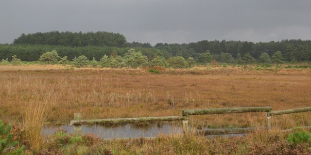 Wareham Forest Walk - Decoy Heath View over Decoy Heath